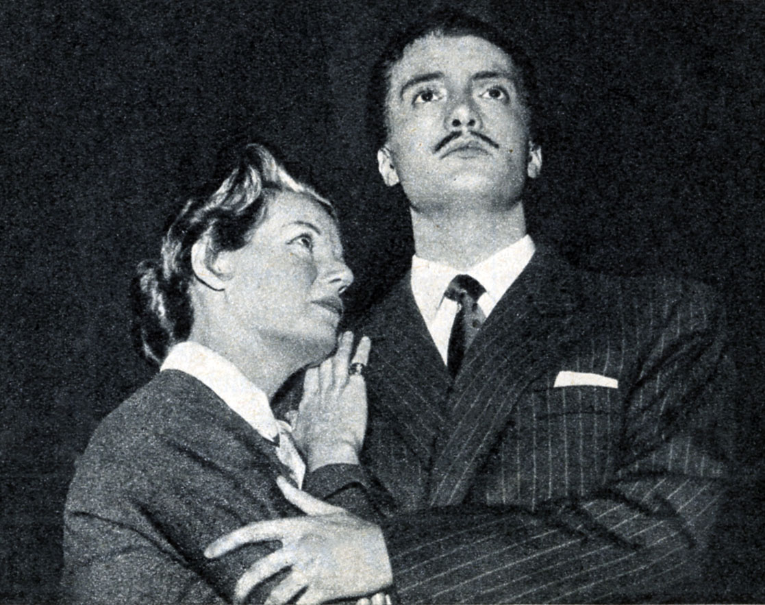 photo from the magazine Radiocorriere (1956)